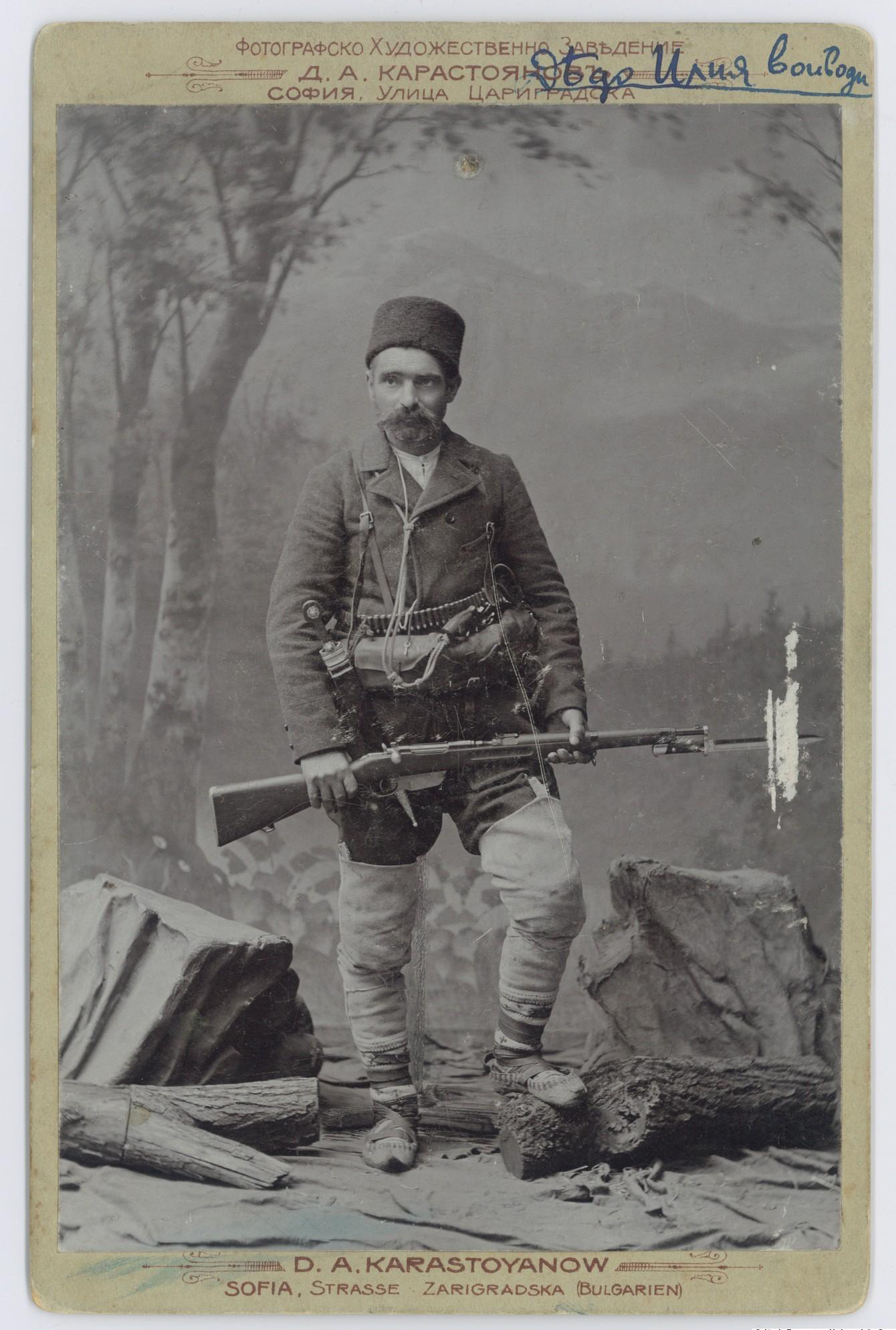 Studio portrait of Iliya Karchovaliyata (Ф. 73К, оп. 1, а.е. 2396-1)